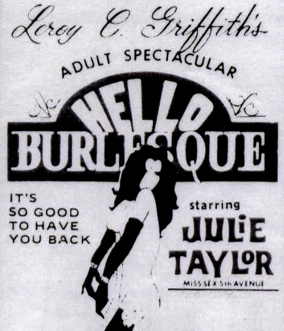 Poster for Leroy Griffith's Hello Burlesque